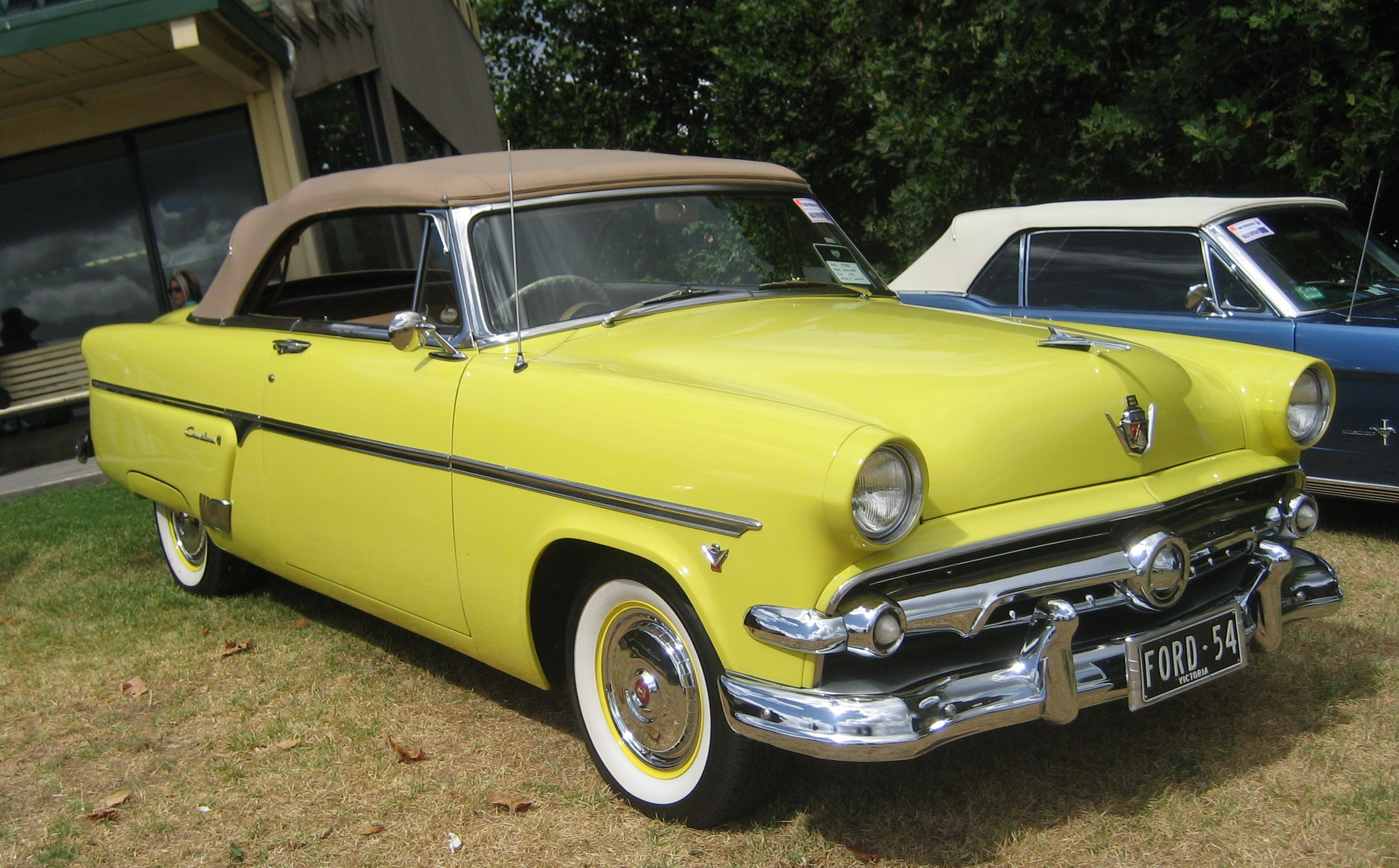 Revised grille for 1954 Available in Mainline, Customline & Crestline Sedans also Sunliner Convertible, Country Squire Wagon, Victoria Hardtop & new Skyliner Coupe V8 Customline Sedan & Mainline Utility Produced in Australia. Engine; 215 6 cyl OHV or 130hp 239 Y block V8